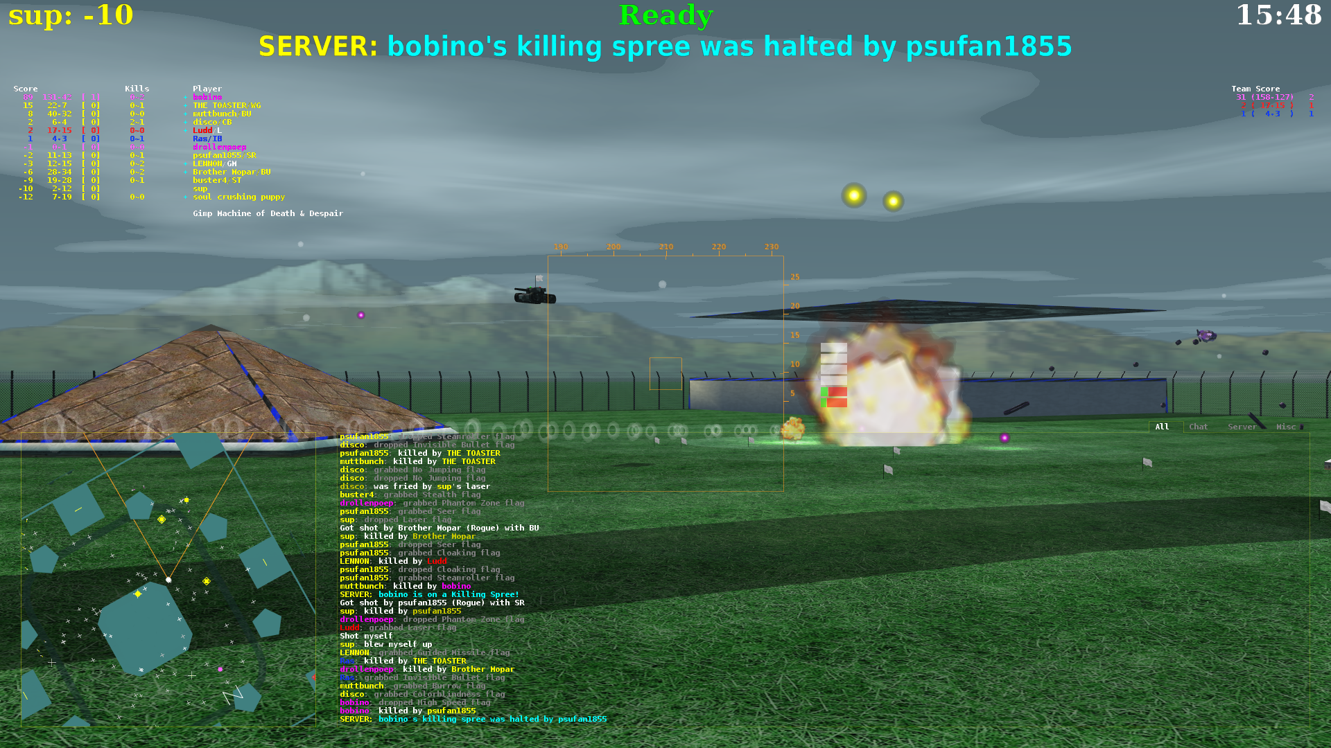 A screenshot of typical play in BZFlag